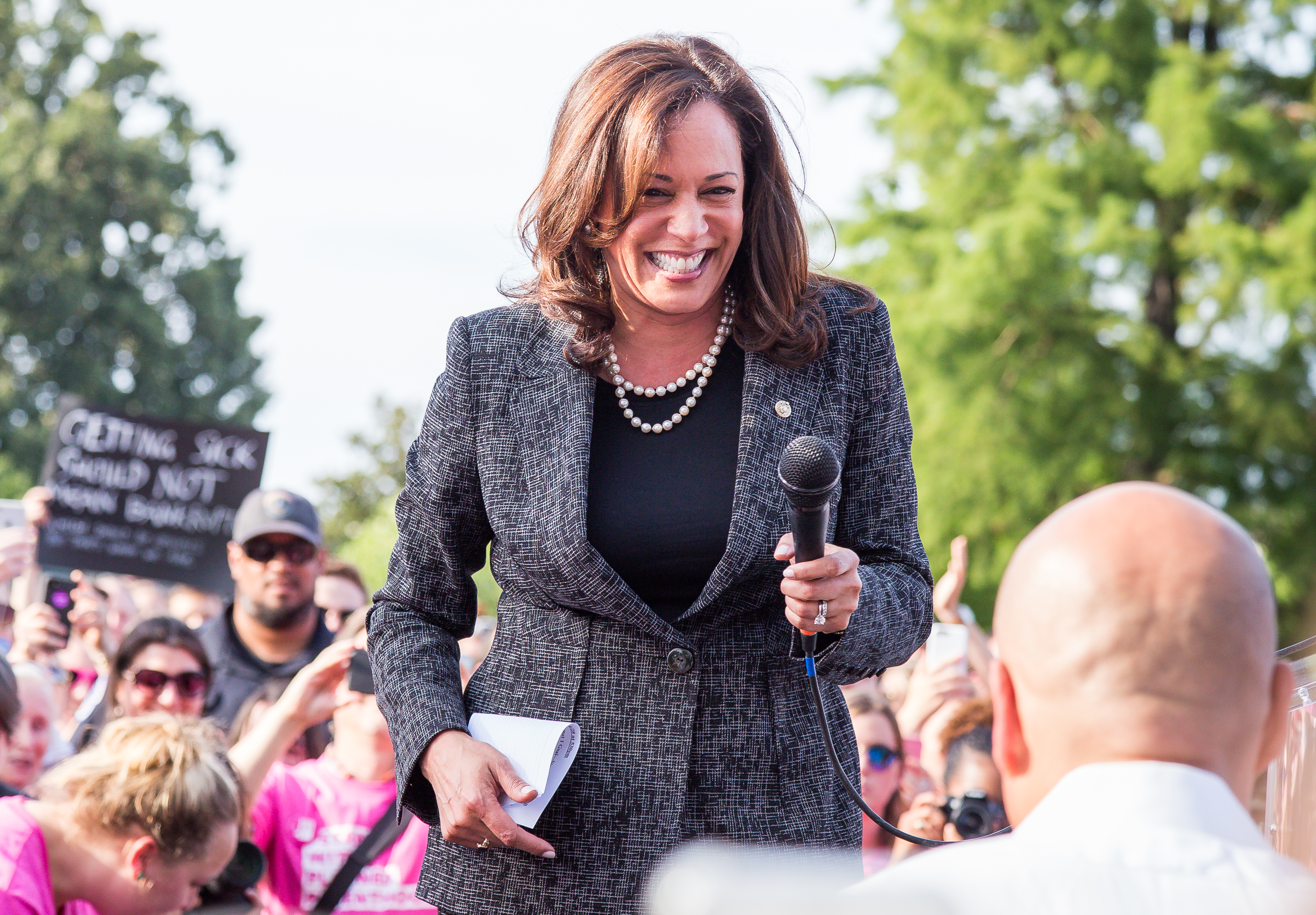 "Linking Together: March to Save Our Care" Rally at the U.S. Capitol on June 28, 2017. Democratic Party Leaders and others spoke to defend the Affordable Care Act and to defeat Republican Party efforts to repeal so called "Obama Care" and replace it with "Trump Care" alternatives.